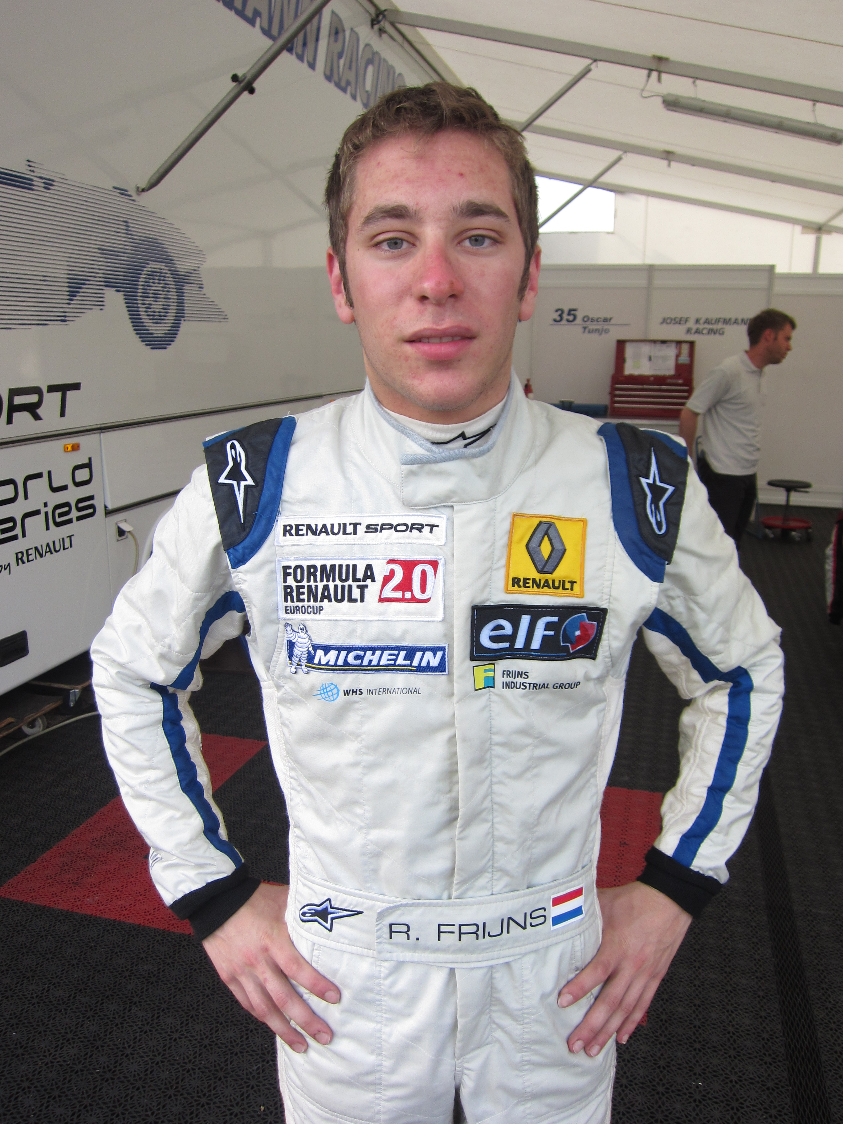 Robin Frijns: the photo was taken during 2011's Preis der Stadt Stuttgart (= Prix of the town Stuttgart) at Hockenheim